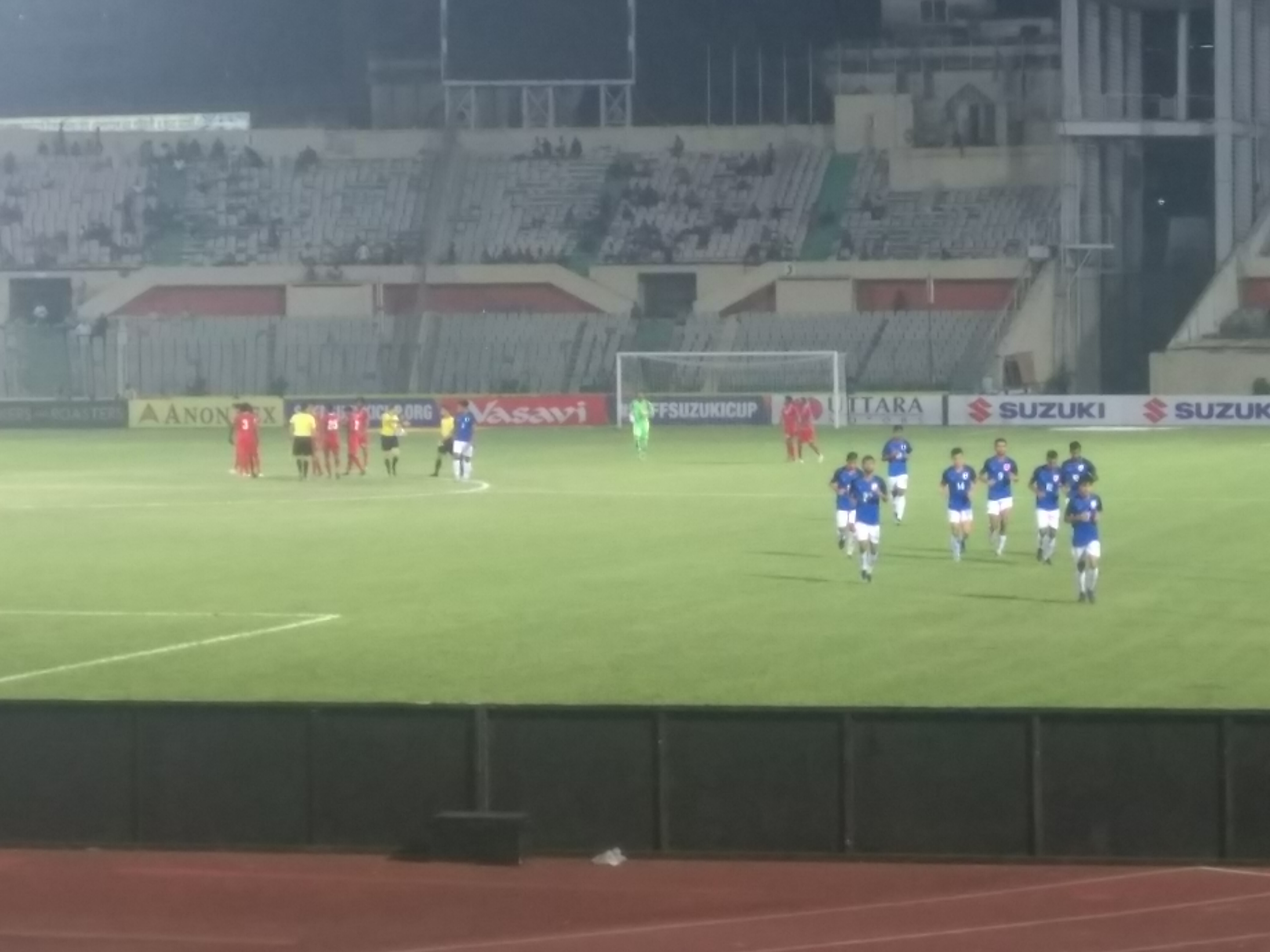 2018 SAFF Championship Final (Maldives vs India) at Bangabandhu National Stadium, Dhaka, Bangladesh.